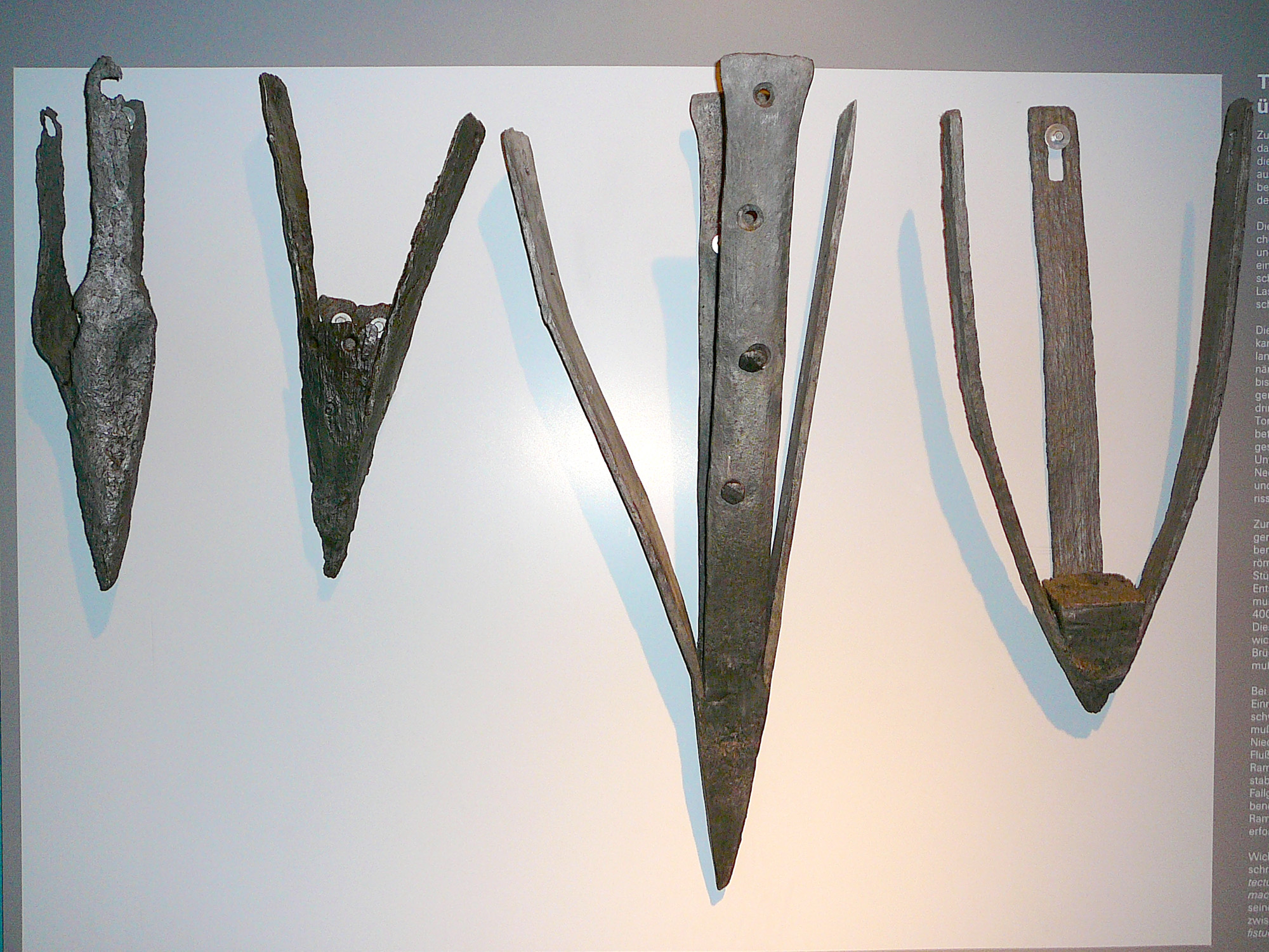 Iron drive shoes for wooden piles, which served as foundation for the pillars of the Neckar bridge in Heidelberg, Germany. Their design has little changed for the last 2000 years. From left to right: 1. Drive shoe of the Roman timber bridge around 80 AD (40 cm long; 3.75 kg) 2. Drive shoe of the Roman stone pillar bridge around 200 AD (46 cm long; 3.8 kg) 3. Drive shoe of the 1786 "Alte Brücke" (Old Bridge) of elector Carl Theodor (75 cm long; 12.5 kg) 4. Drive shoe of the wooden temporary bridge of the US army in 1945 (58,5 cm long; 11.2 kg)